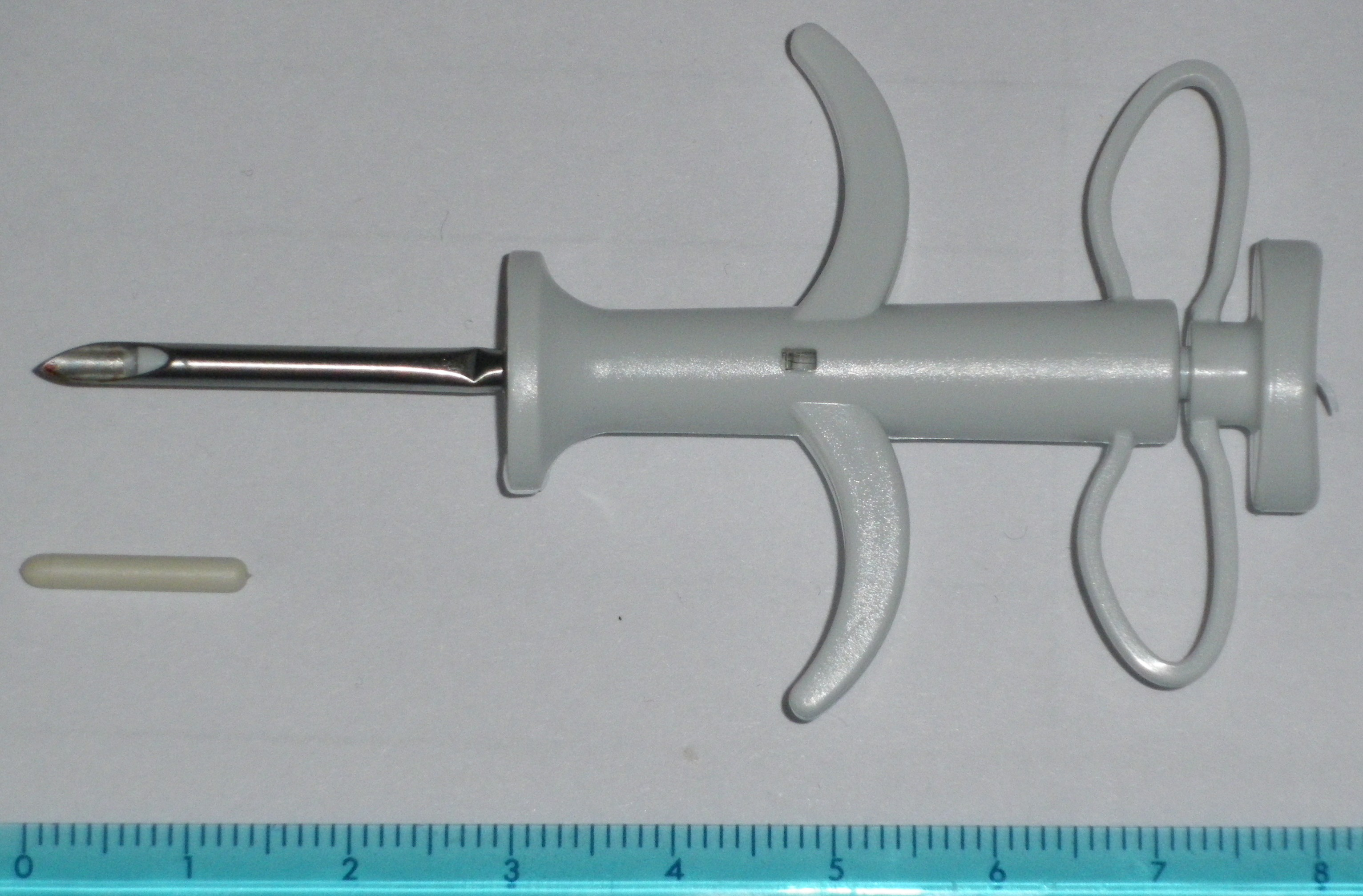 ISO-transponder for animals